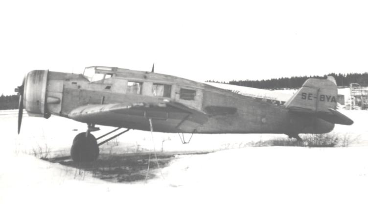 Junkers W 34 SE-BYA ex Swedish Air Force Trp 2A/Tp 2A ambulance aircraft at Stockholm Arlanda airport